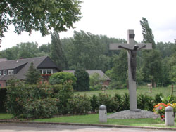 wayside cross in Empel (Rees)